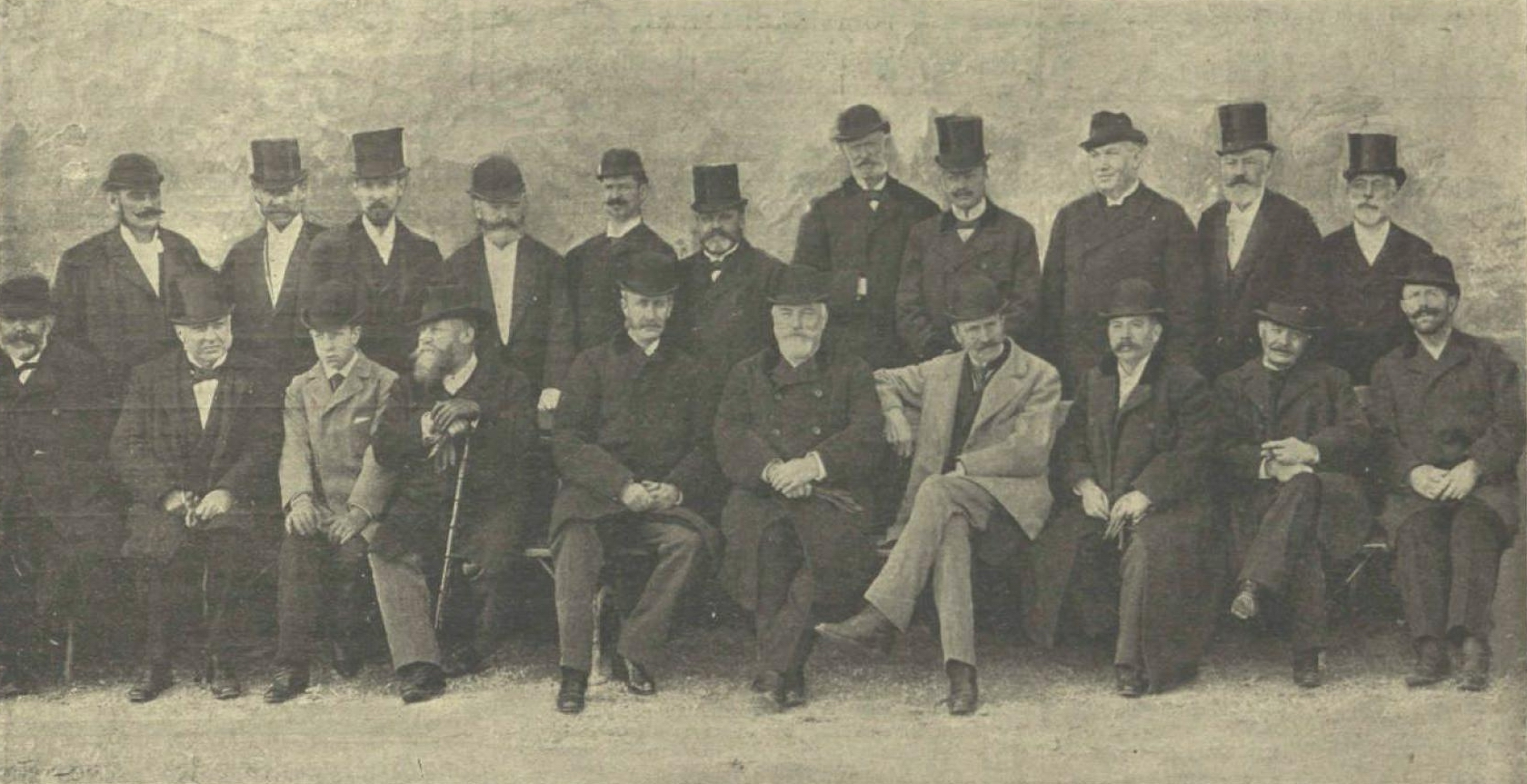 100th anniversary of Georgikon in Keszthely. Árpád Balás, György Festetics (1882–1941), Béla Tormay, Tasziló Festetics, Ignác Darányi, Aurél Dessewffy (1846–1928), Sándor Lovassy (and others) are on the photograph.